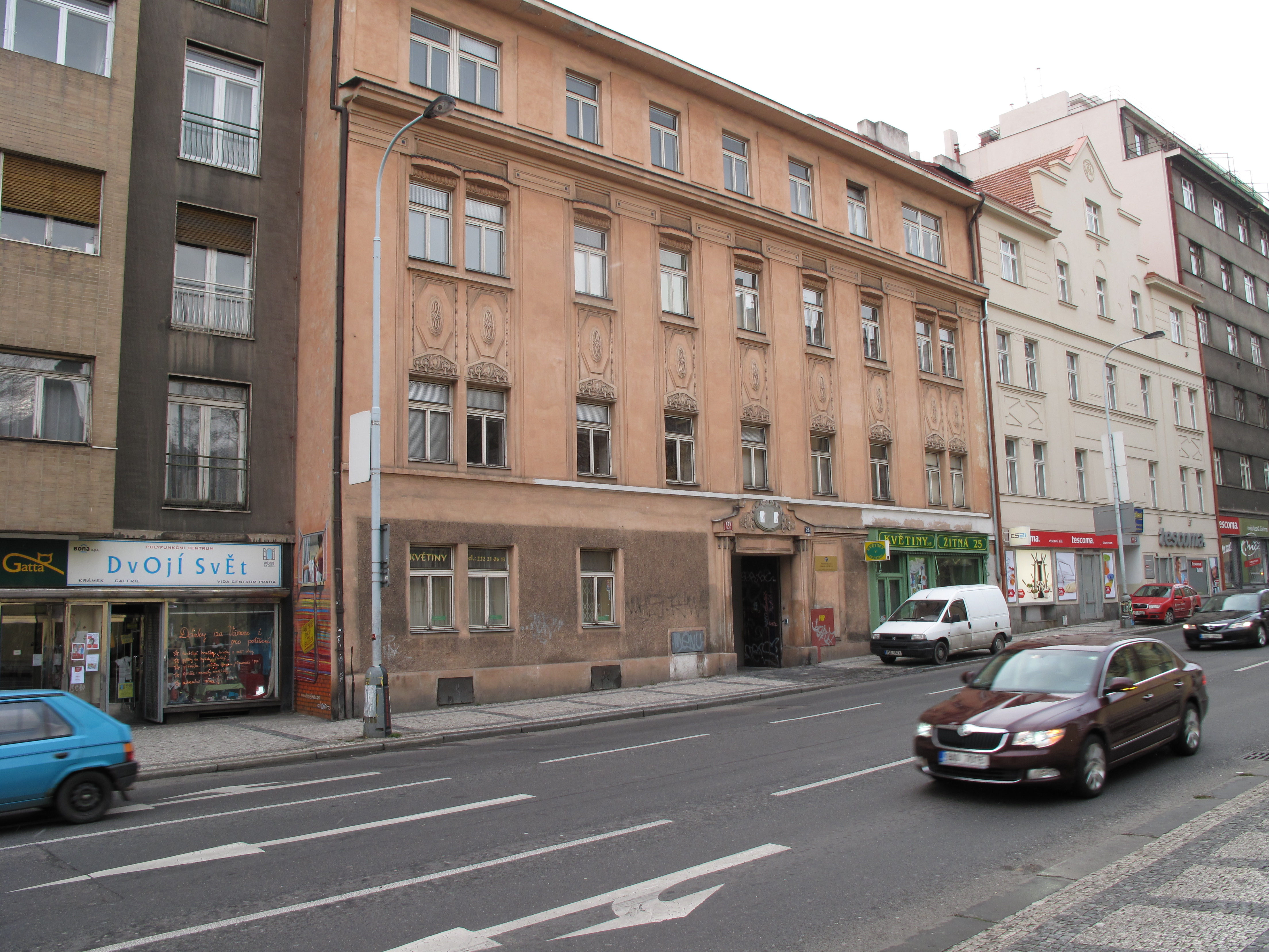 Facade of the Institute of Mathematics of the Academy of Sciences of the Czech Republic, Žitná Street, Prague, Czech Republic.